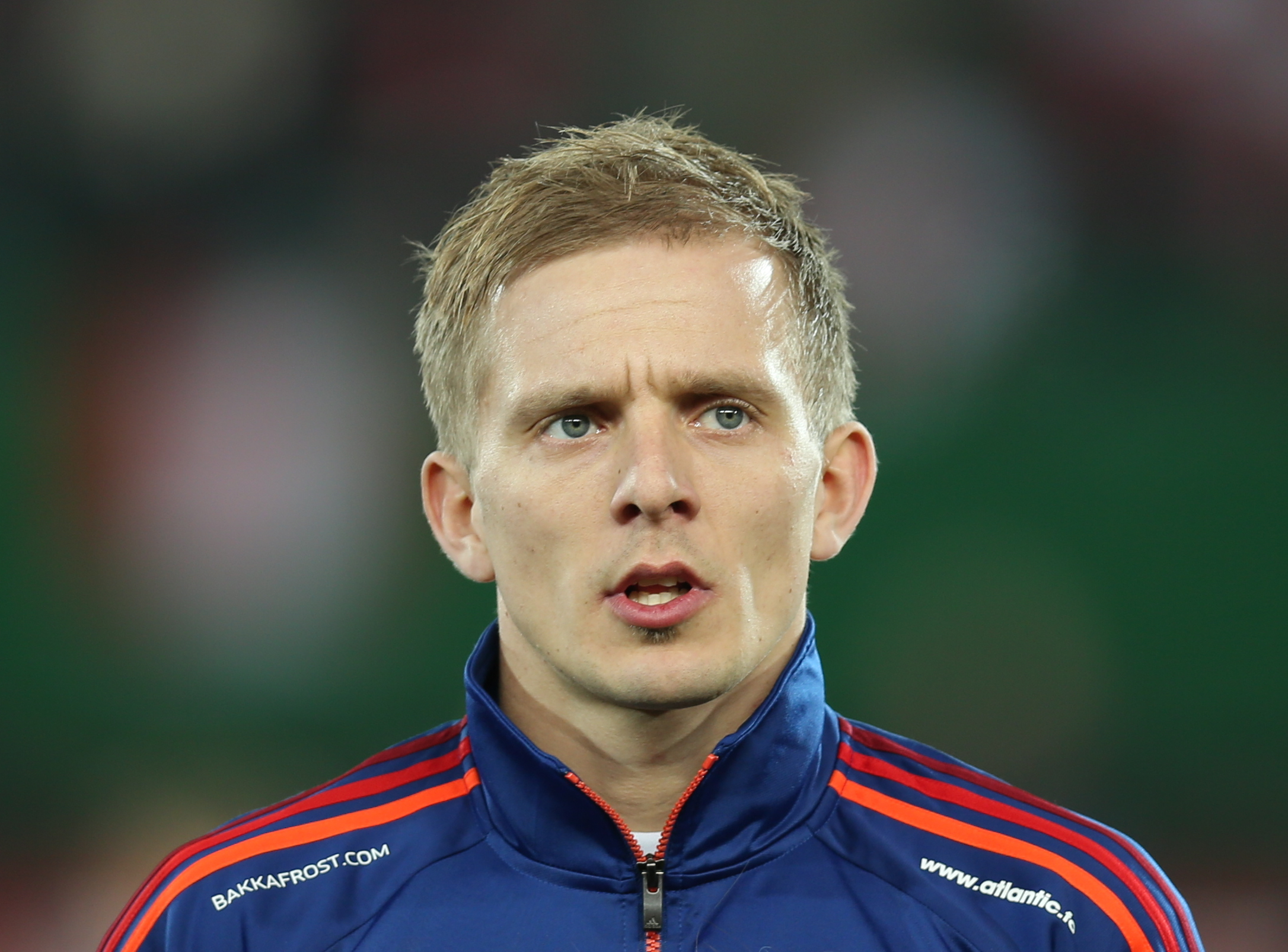 2014 FIFA World Cup qualification (UEFA), Group C: Austrian national football team vs. Faroer Islands national football team (6:0) at 22. March 2013 in the Ernst-Happel-Stadion in Vienna. Here: Hjalgrím Elttør, striker of the Faroe Islands. The making of this work was supported by Wikimedia Austria. For other files made with the support of Wikimedia Austria, please see the category Supported by Wikimedia Österreich.